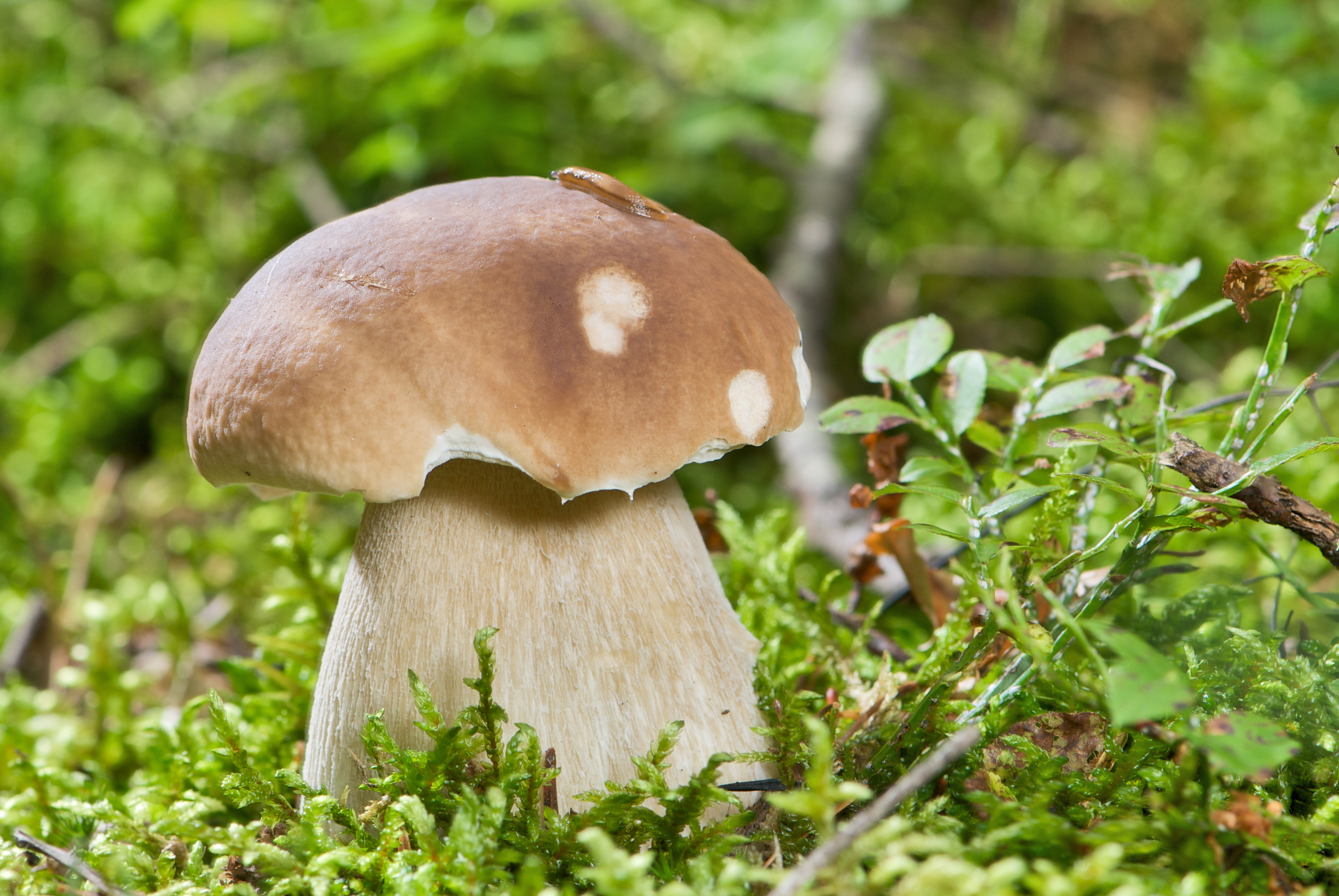 Boletus edulis is an edible mushroom in the Basidiomycete phylum. The fruiting body of the specimen in the picture has been growing for about four days and is about 130 mm tall.